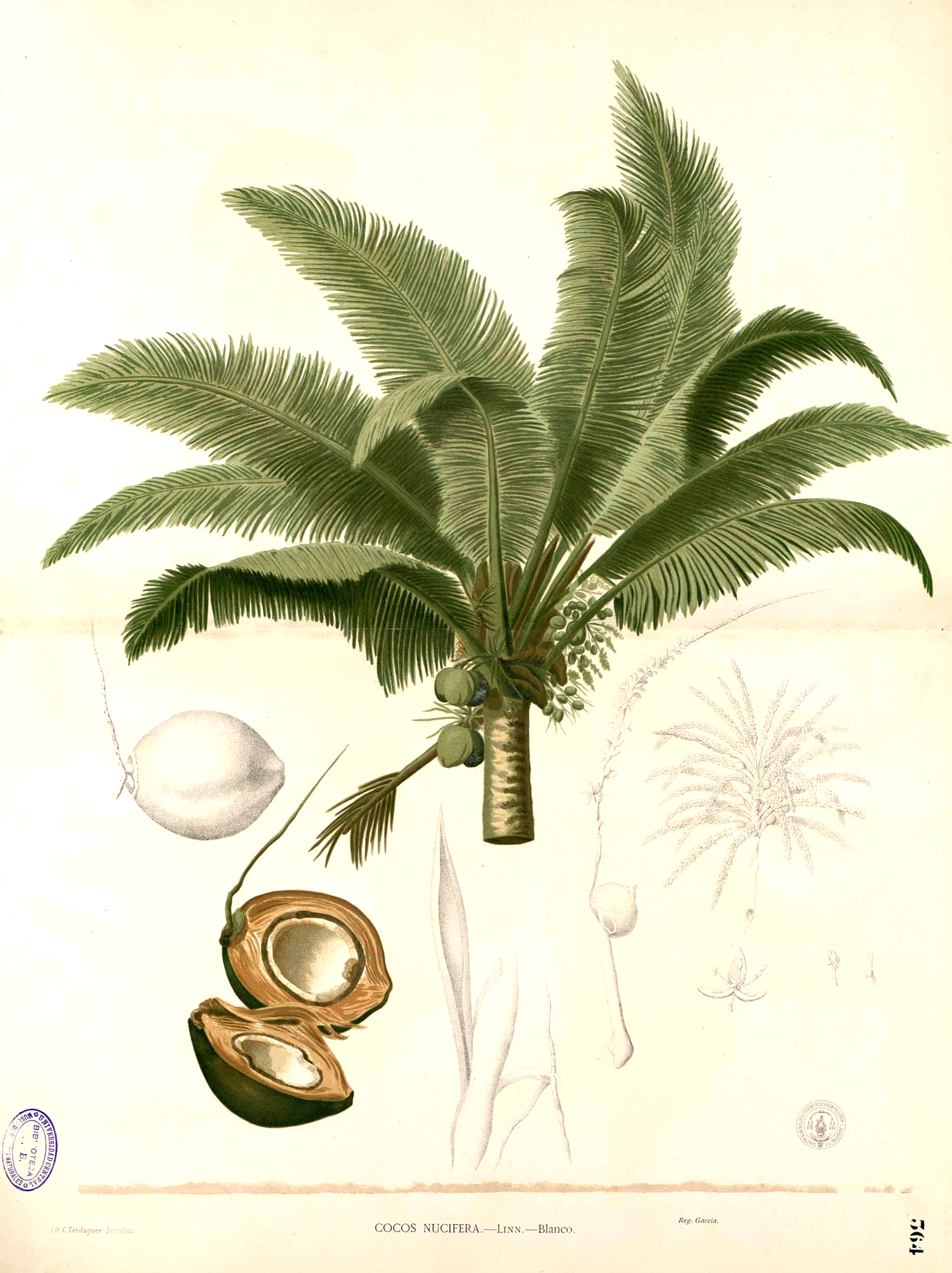 Plate from book